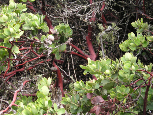 Closeup of Manzanita shrub branches and leaves, bright red bark